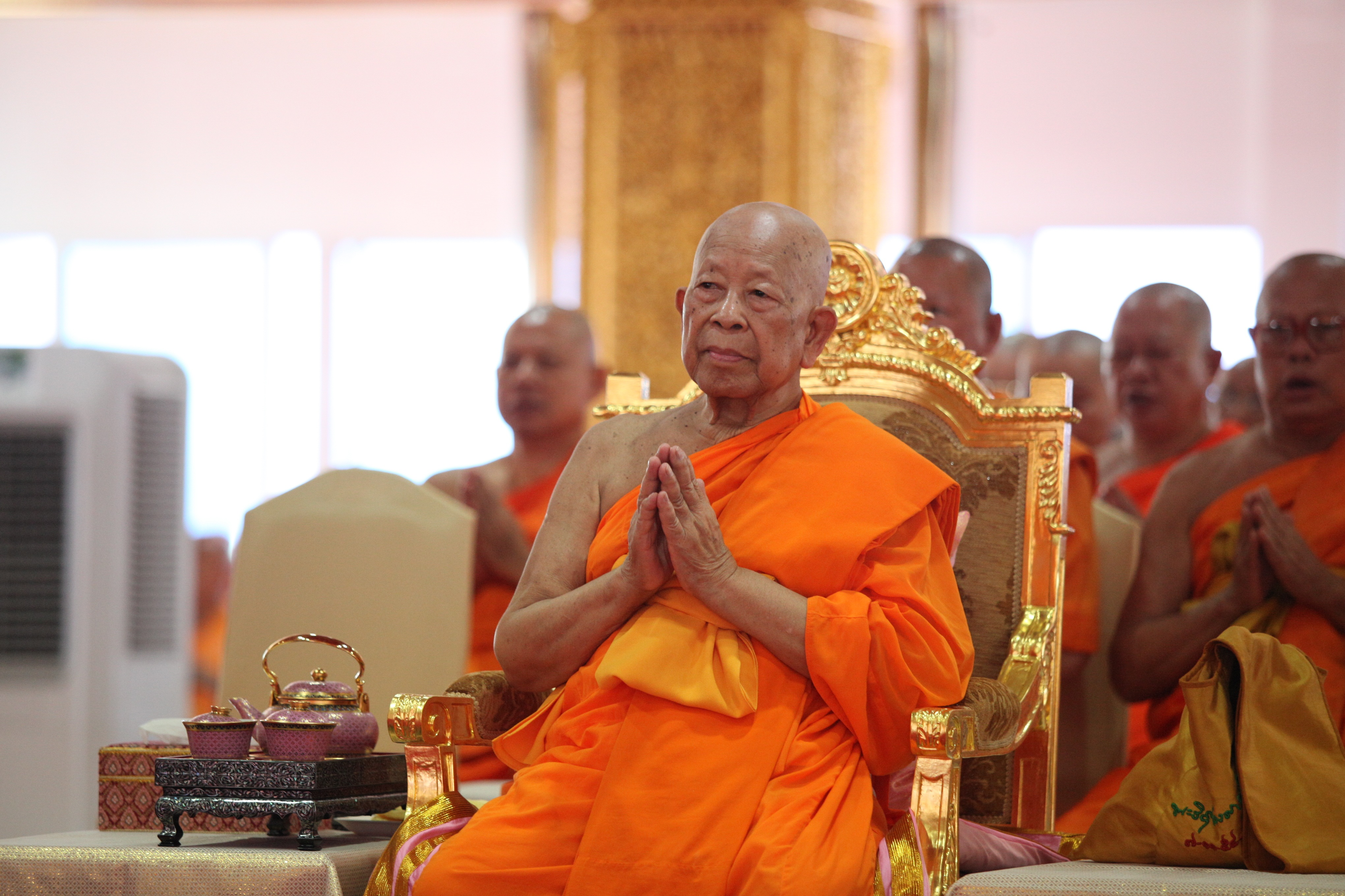 Somdet Chuang Varapunno presiding a ceremony